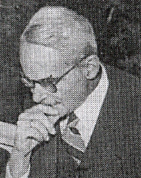 Johan Marie Louwerse (1887-1953)